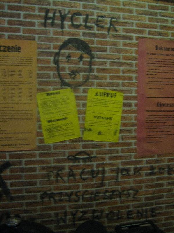 Polish Resistance wall in the Polish Army Museum. Hycler sounds similar to the Polish word for "dogcatcher".